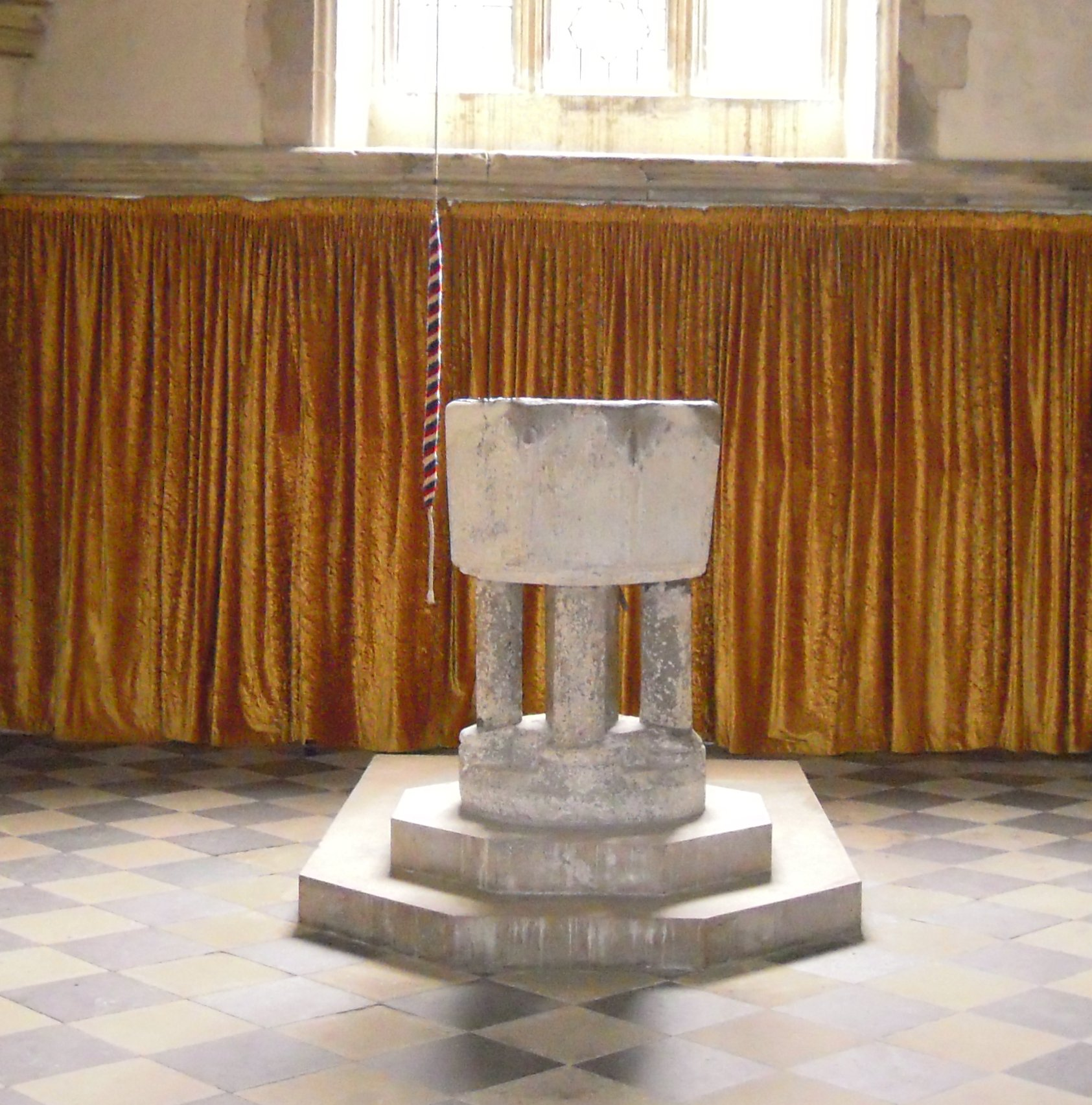 The transitional Norman Font of St. Mary the Virgin in Baldock dates to about 1150